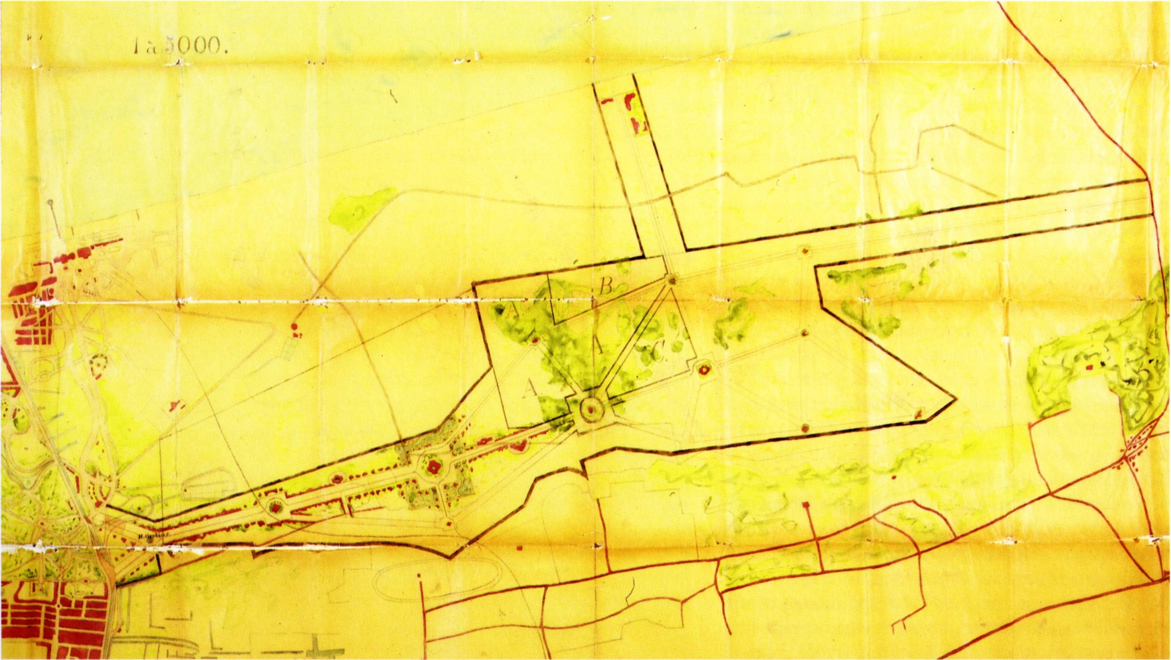 Design for a World Peace Centre, near Meijendel, plan.